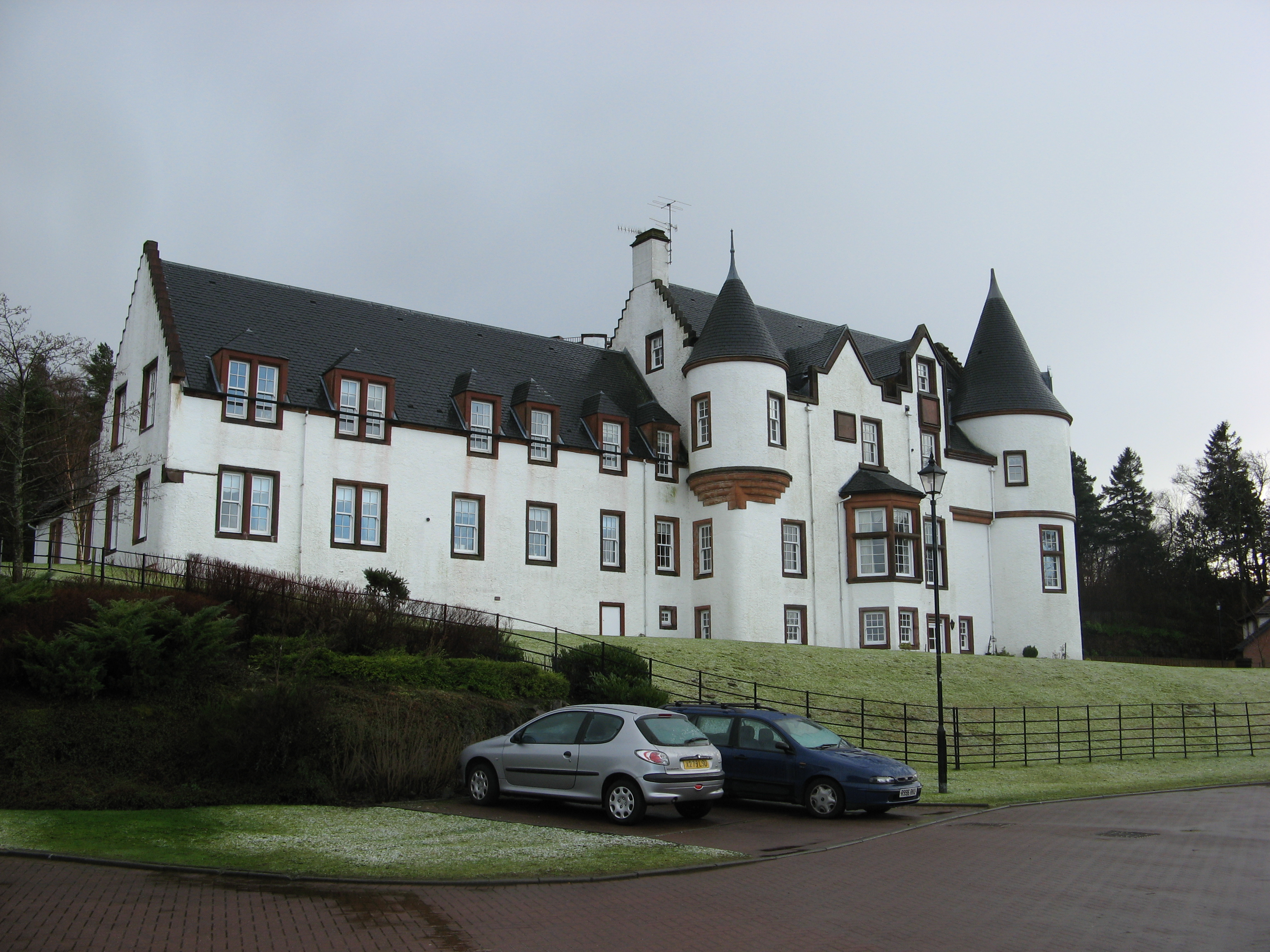 Auchenbothie House, Kilmacolm, Scotland, designed by William Leiper and formerly hope of shipping magnate Sir James Lithgow (1883-1952). Now private flats.